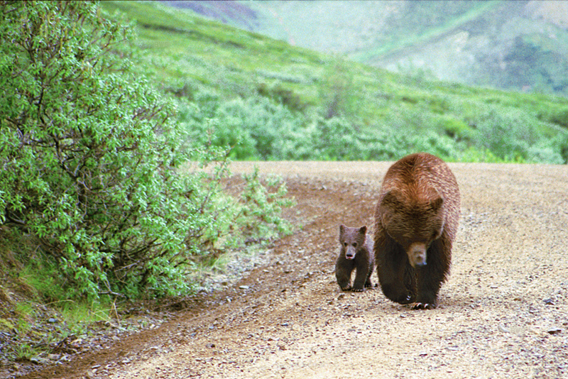 Denali National Park and Preserve, Alaska, USA, Grizzly bear (Ursus arctos horribilis) with cub walking along the main park road. Photo was taken from inside a tour bus in June 2002.